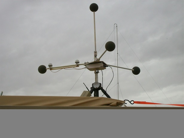 Unattended Transient Acoustic MASINT